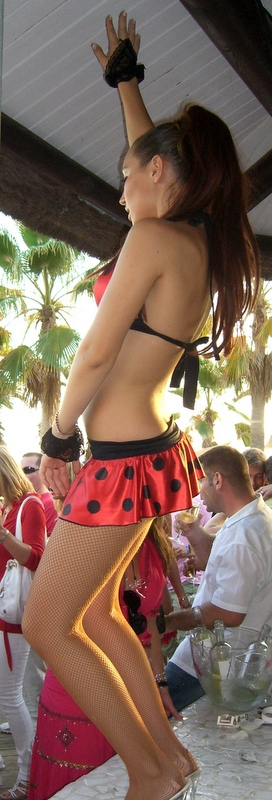 young woman dressed in a minskirt and bikini top dancing in a bar